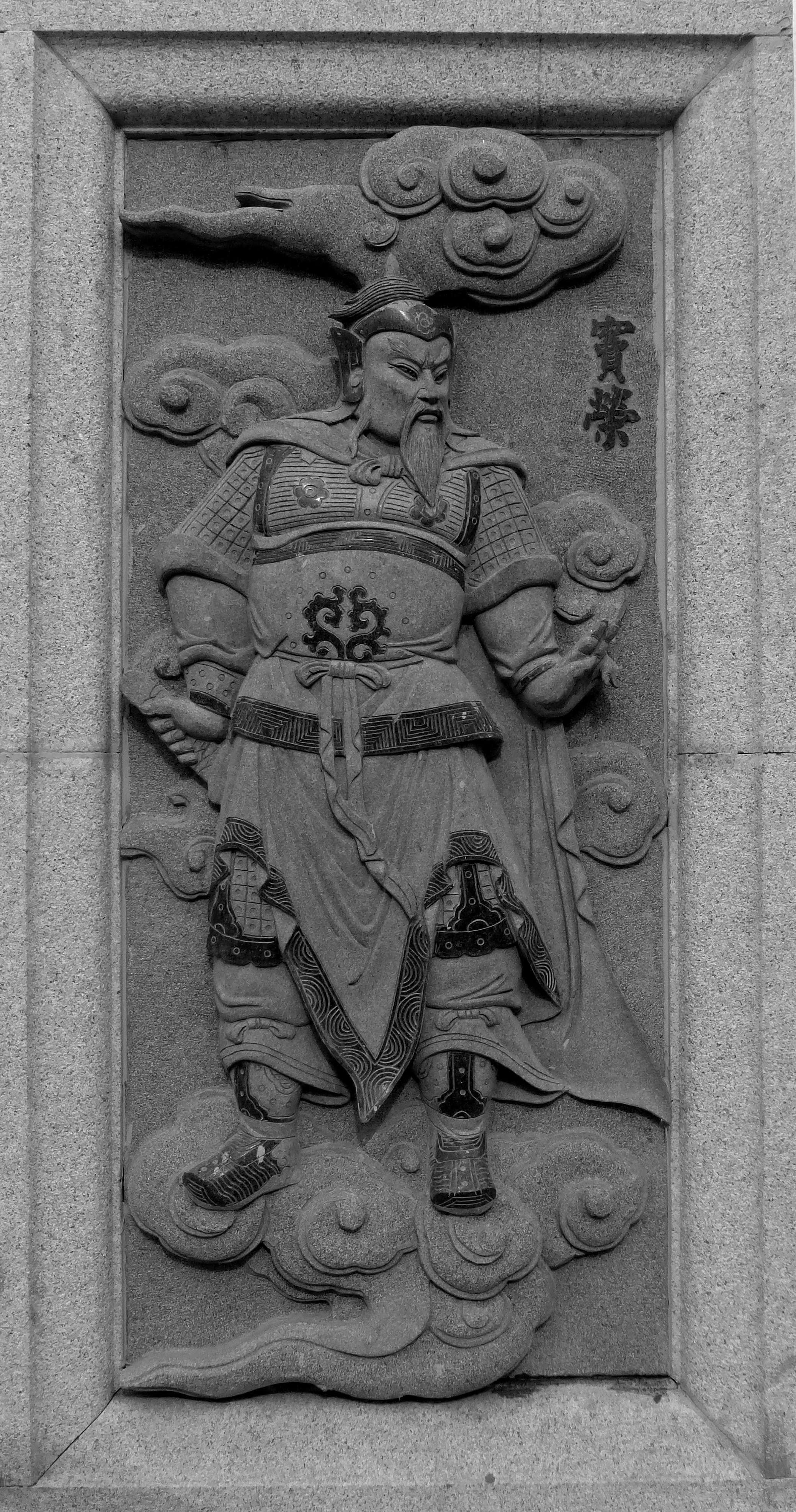 096 Dou Rong, Investiture of the Gods at Ping Sien Si, Pasir Panjang, Perak, Malaysia Photograph from the Ping Sien Si Temple in Perak, Malaysia taken by Anandajoti.